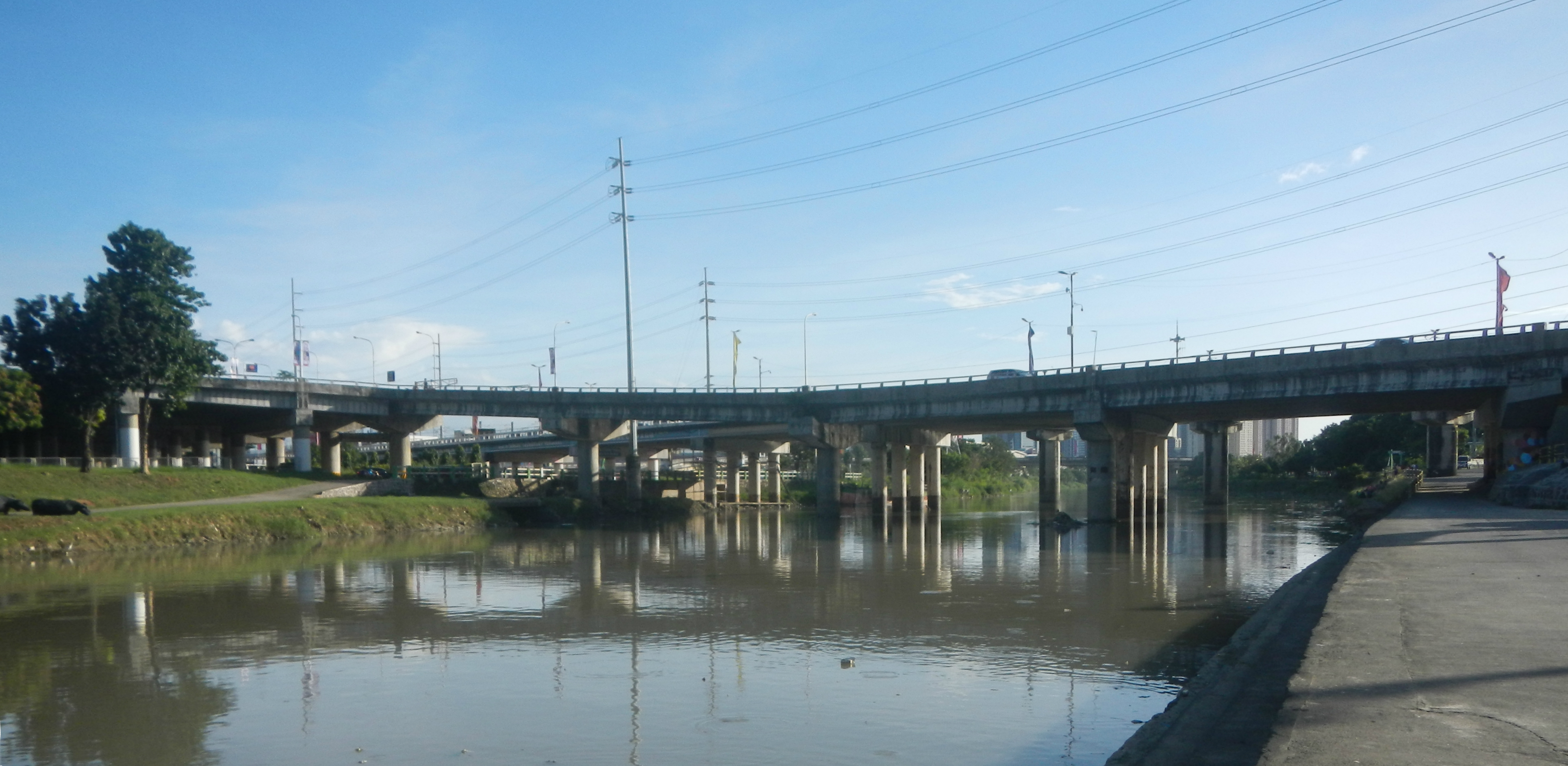 List of landmarks and attractions of Marikina Tayug Footbridge 14°37'25"N 21°5'5"E interconnecting with the SM City Marikina Footbridge 14°37'28"N 121°5'3"E and the Santolan LRT Station Footbridge 14°37'19"N 121°5'11"E MRT-2 (LRT-2) Santolan Station and the Marcos Bridge 14°37'32"N 121°4'58"E along Marcos Highway (Marikina City Section) Marcos Highway 14°36'49"N 121°20'8"E (Marikina City Section) Marikina River Marikina River Park under the Marikina River Park Authority, 1993 system of parks, trails, open spaces and recreation facilities along an 11-kilometre (6.8 mi) stretch of the Marikina River, Carabao statues along SM City Marikina SM City Marikina 14°37'35"N 121°5'3"E Riverbanks Center, Radial Road-6, Flyover, Riverbanks Center 14°37'50"N 121°4'56"E Riverbanks Center and Eastern Metro-Manila Multi Modal Transport Terminal; located in Major Dizon Street and FVR Road at Barangays of Marikina Barangays Industrial Valley Complex 14°37'30"N 121°4'41"E , Orlandes IVC Green Garden, Calumpang, Marikina and Barangka (Marikina), Marikina City bounded by Legislative district of Pasig City List of barangays of Metro Manila, Barangays Santolan 14°36'53"N 121°5'7"E Pasig City; Santolan LRT Station Manila Light Rail Transit System Line 2 Strong Republic Transit System SRTS Marikina–Infanta Highway Marcos Highway or MARILAQUE Highway or Manila-Rizal-Laguna-Quezon (Note: Judge Florentino Floro, the owner, to repeat, Donor Florentino Floro of all these photos hereby donate gratuitously, freely and unconditionally all these photos to and for Wikimedia Commons, exclusively, for public use of the public domain, and again without any condition whatsoever).